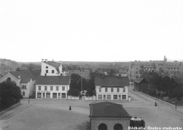 The marketplace Våghustorget, Örebro, Sweden